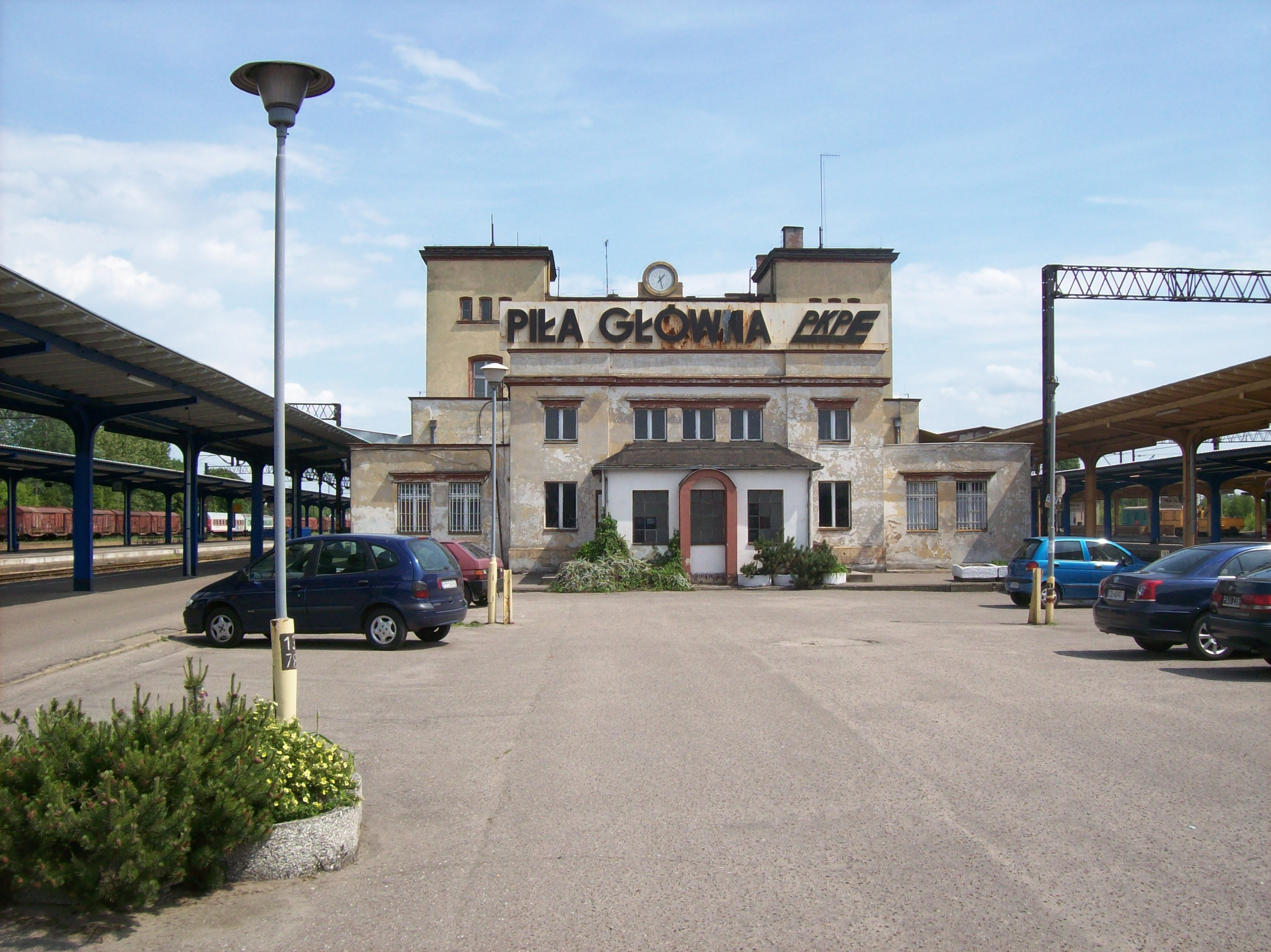 Train station in Piła.